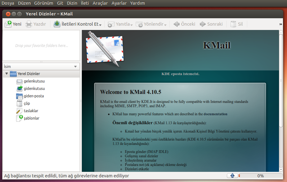 KMail 4.10 screenshot on Ubuntu OS